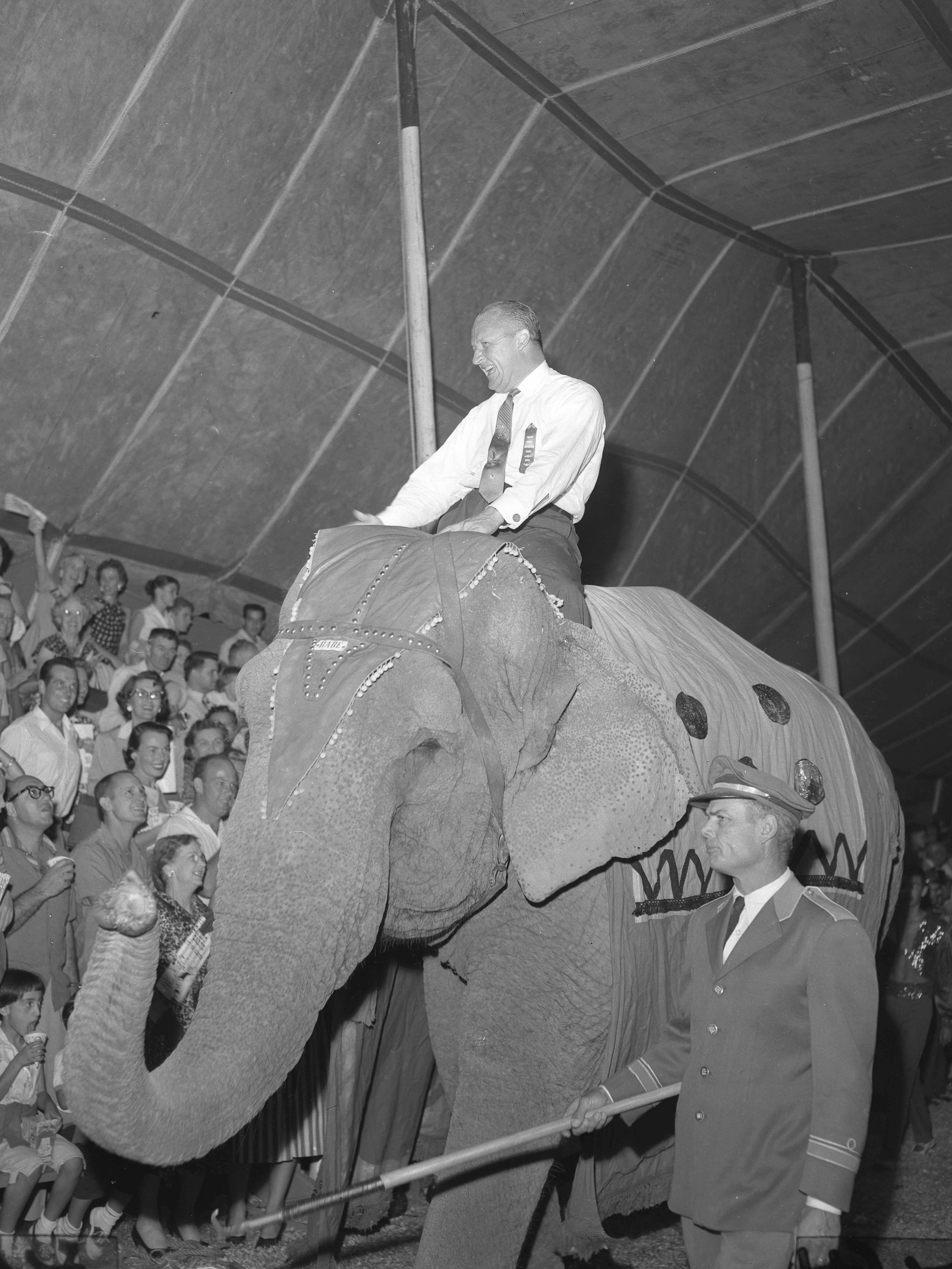 Senator William Knowland atop elephant at three-ring circus in Orange County, California. Published caption Senator William Knowland atop elephant at three-ring circus in Orange County, Calif., 1958